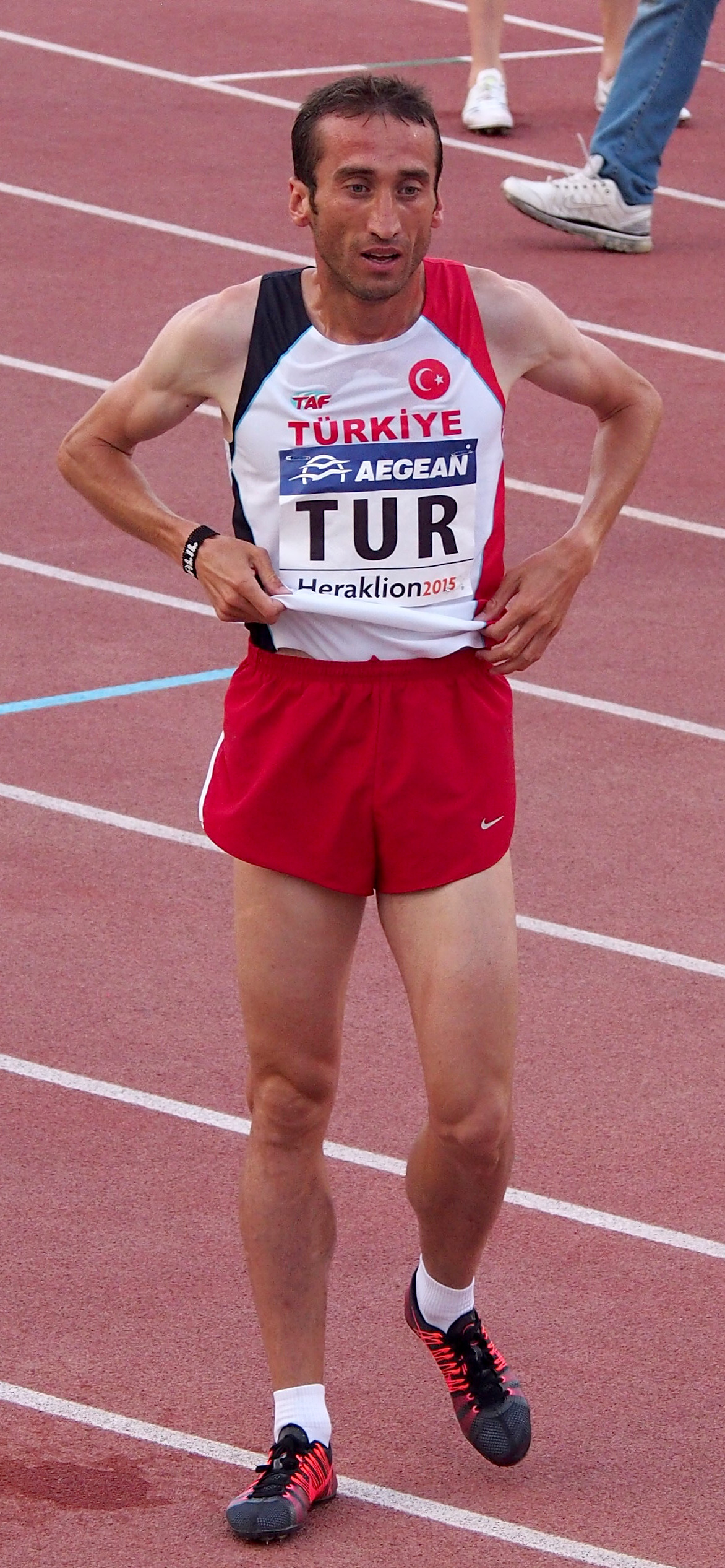 Halil Akkaş (winner), after the end of the 3.000 m race at 2015 European Team Championships First League.